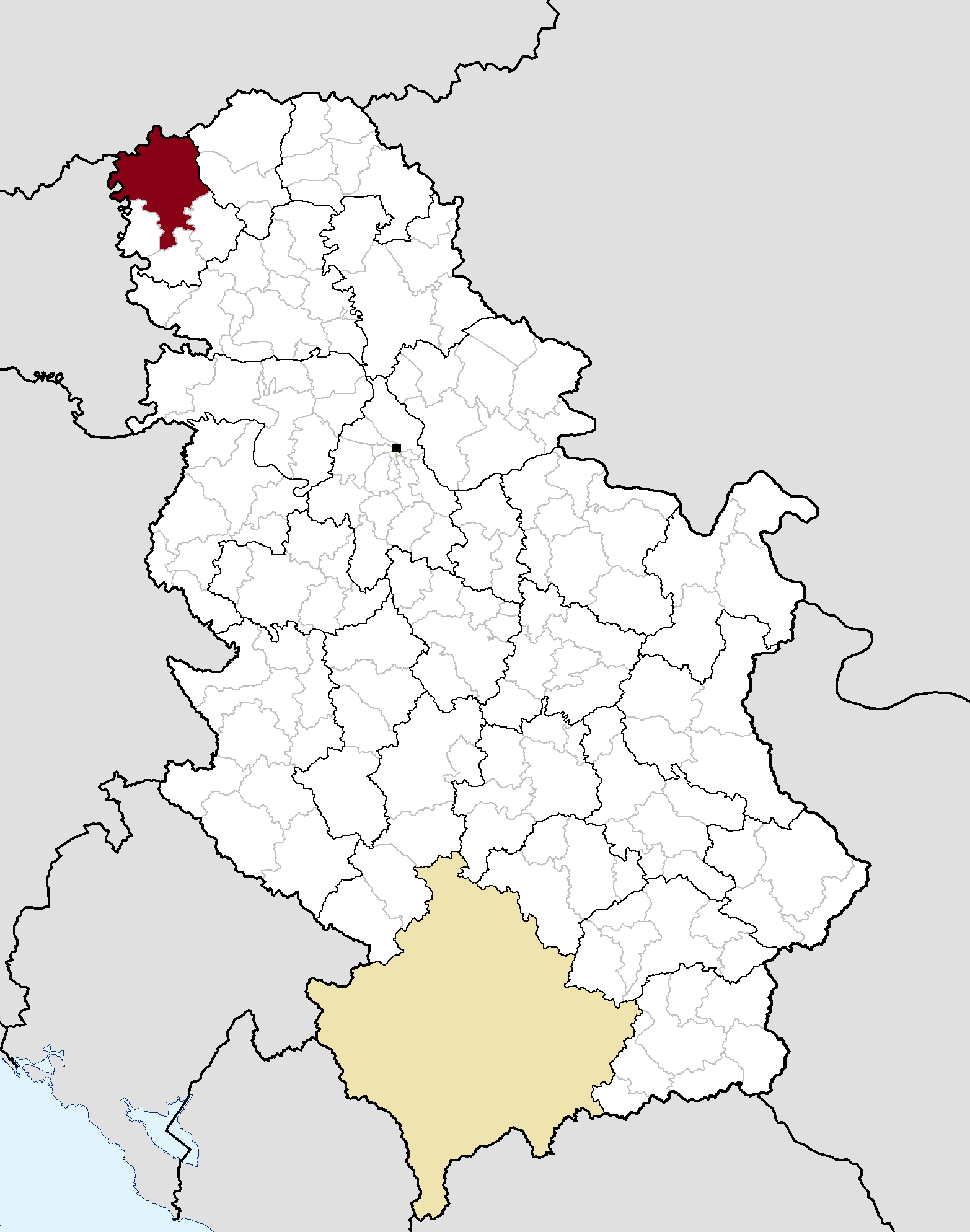 Municipal location in Serbia